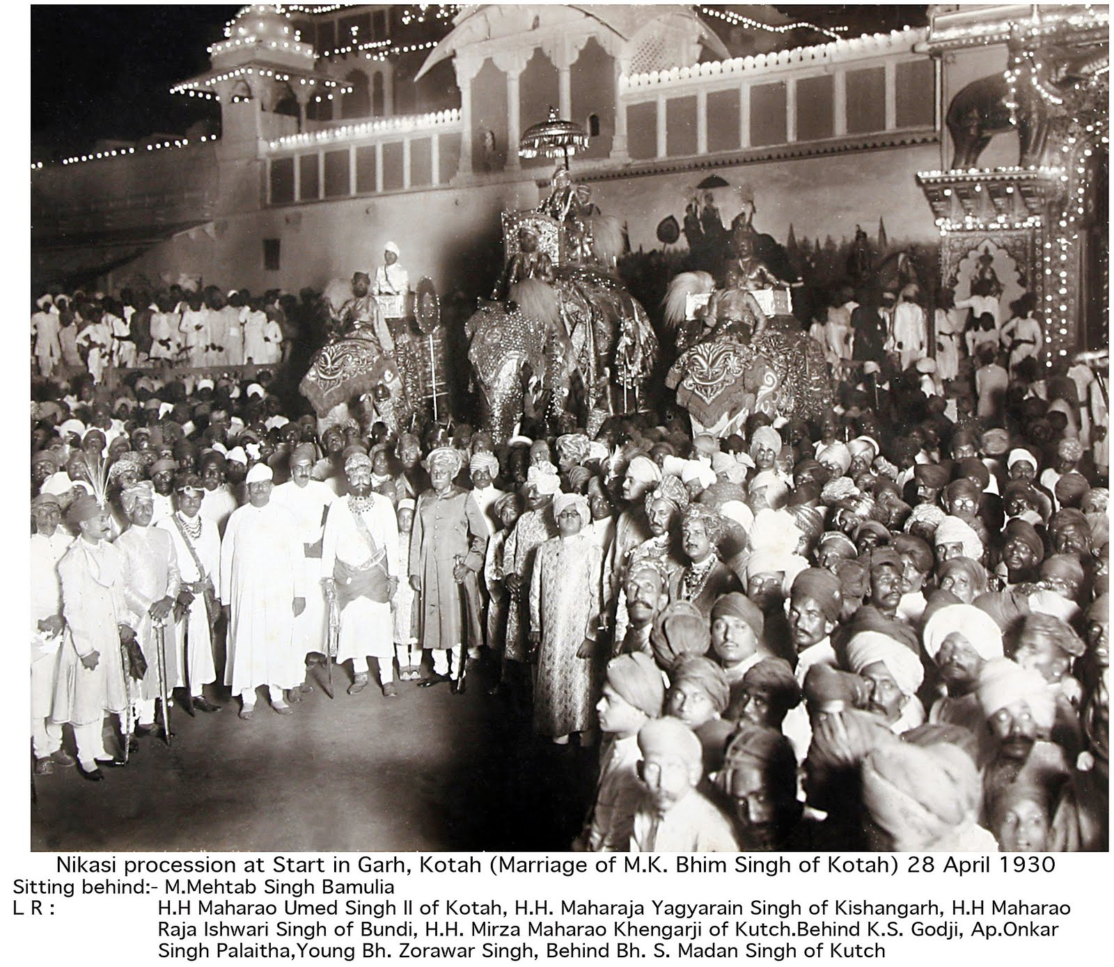 Nikasi procession at start in Garh, Kotah. Nikasi is at start of wedding procession from the groom's house. Sitting behind: M. Mehtab Singh Bamulia L R: Maharao Umed Singh II of Kotah, Maharaja Yagyarain Singh of Kishangarh, Maharao Raja Ishwari Singh of Bundi, Mirza Maharao Khengarji of Kutch. Behind K.S Godji, Ap. Onkar Singh Palaitha, Young Bh. Zorawar Singh, Behind Bh. S. Madan Singh of Kutch